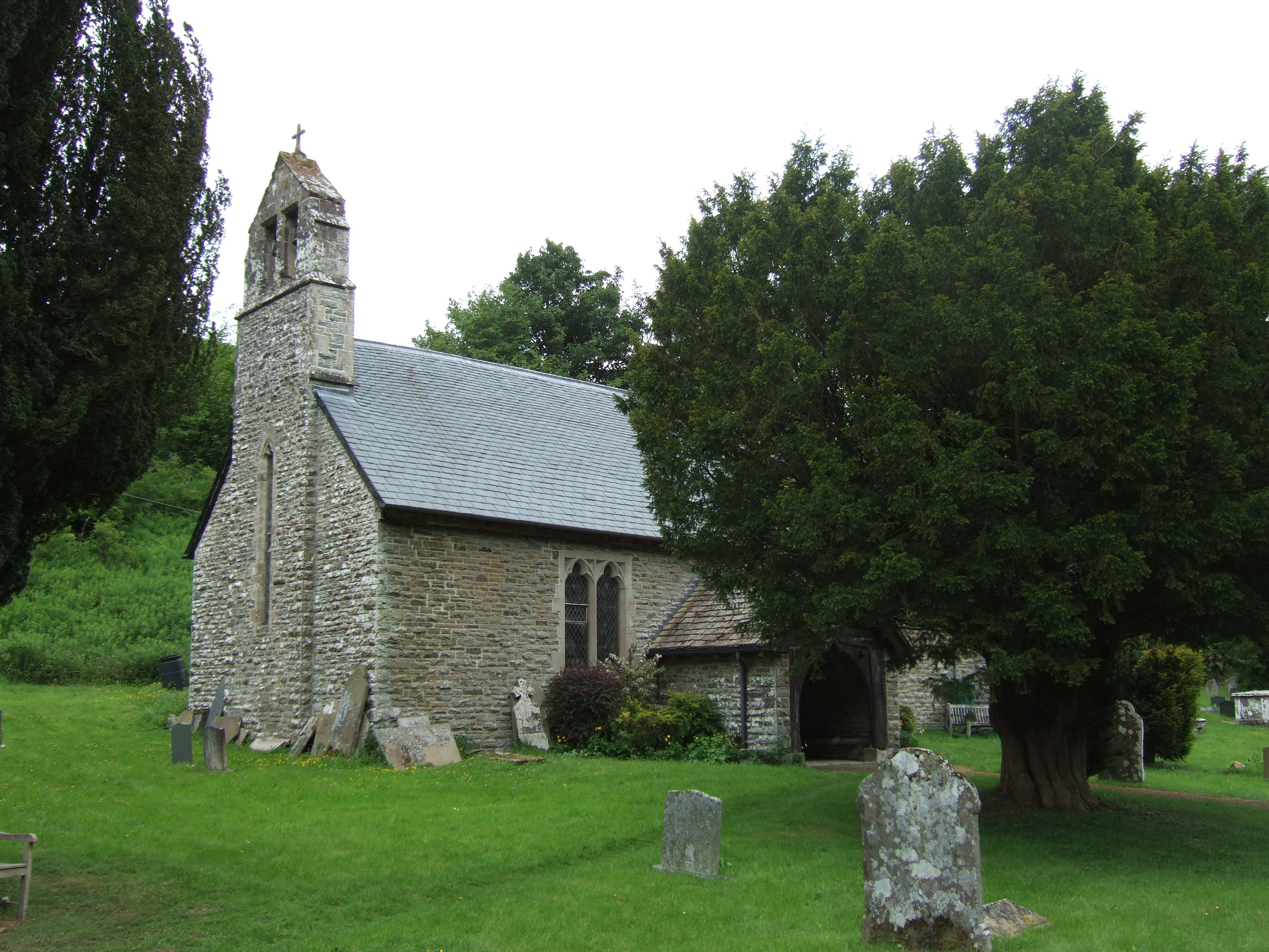 The church at Churchtown in Mainstone parish, Shropshire, England